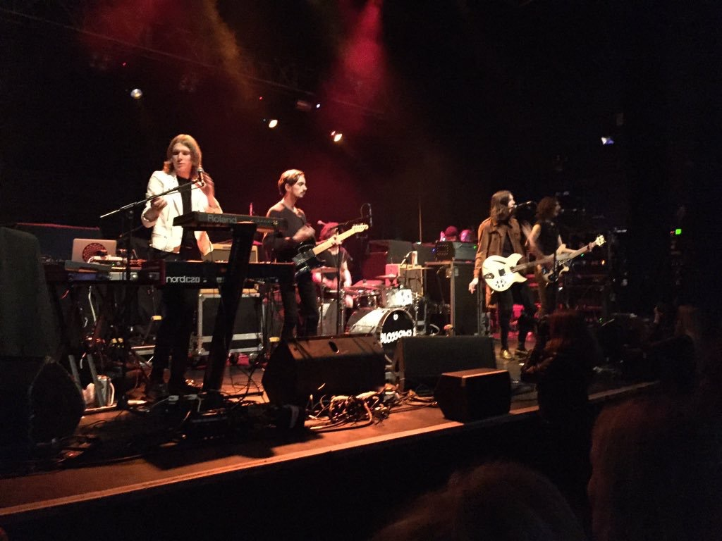 Blossoms live at The Forum in Kentish Town on the 19th December 2015.